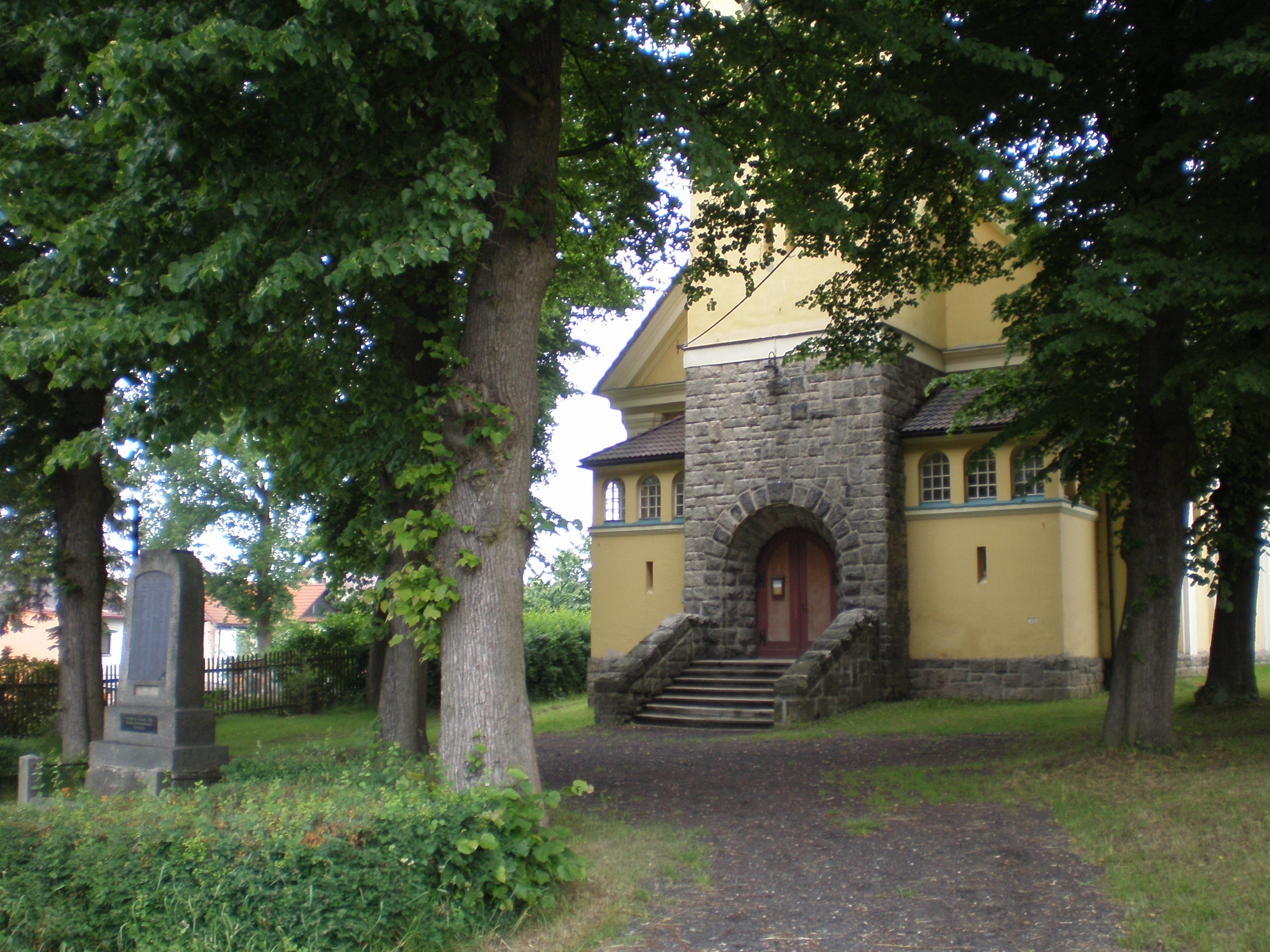 Mokřiny, a part of city Aš, evang.church